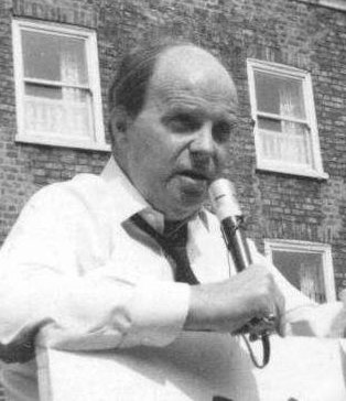 UK Conservative politician Iain Macleod campaigning at York in the General Election of 1970. The Conservatives won the election and Macleod was appointed Chancellor of the Exchequer, but died suddenly only a few weeks after taking office.